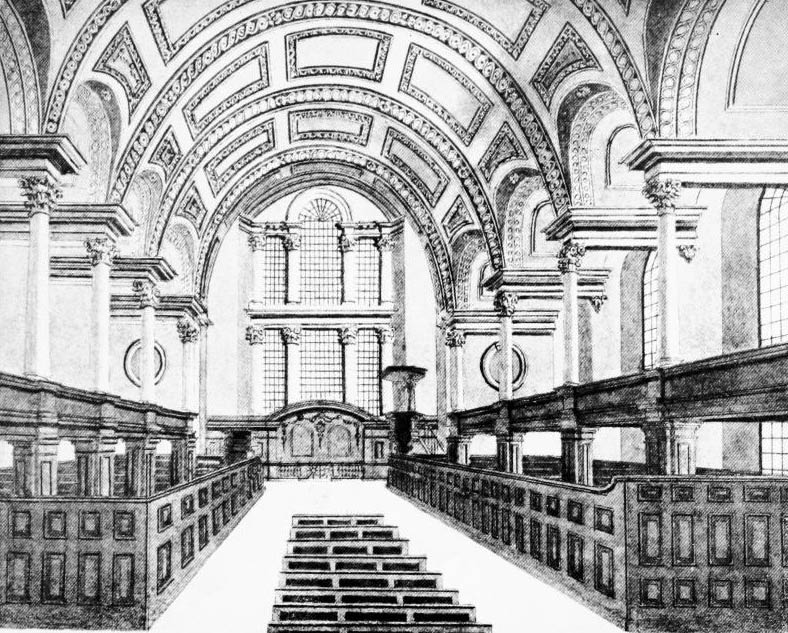 The interior of St James's Church, Piccadilly in London circa 1806